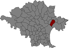 Location of Palau-saverdera in Alt Empordà